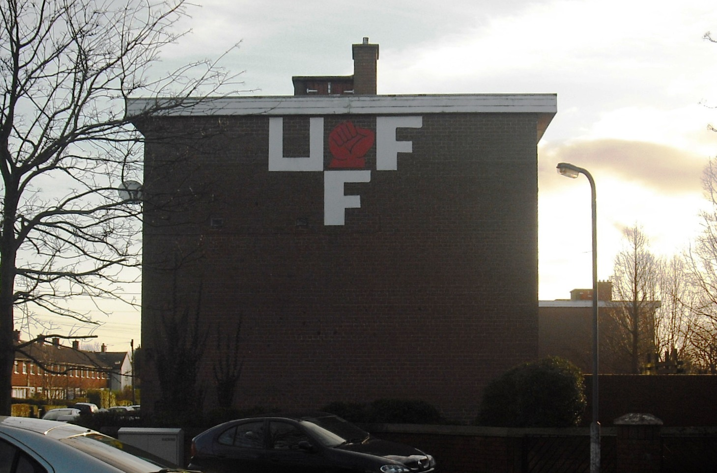 Ulster Freedom Fighters insignia on the side of a building in the Annadale Flats area of south Belfast. Note the time and date stamp on the camera information are not accurate as these were not properly set when the picture was taken.